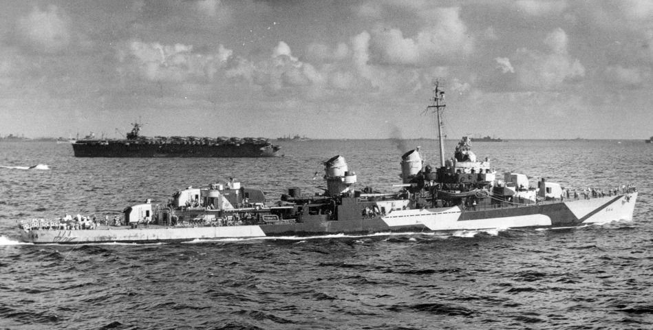 The U.S. Navy destroyer USS Stembel (DD-644) underway. The ship is painted in camouflage Measure 32, Design 10D.